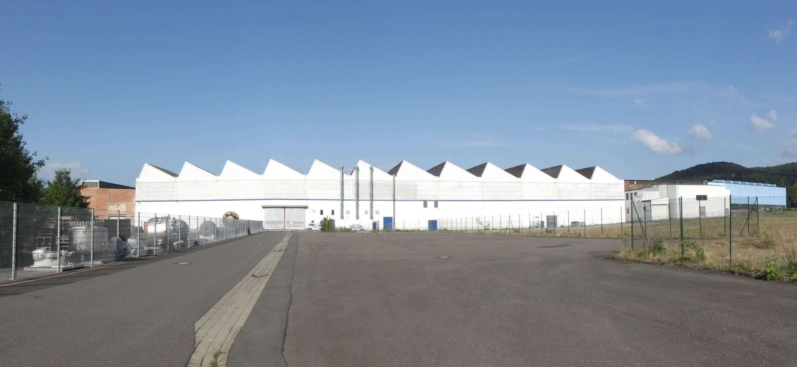 View of the production facility of THALETEC GmbH in Thale, Saxony Anhalt, Germany